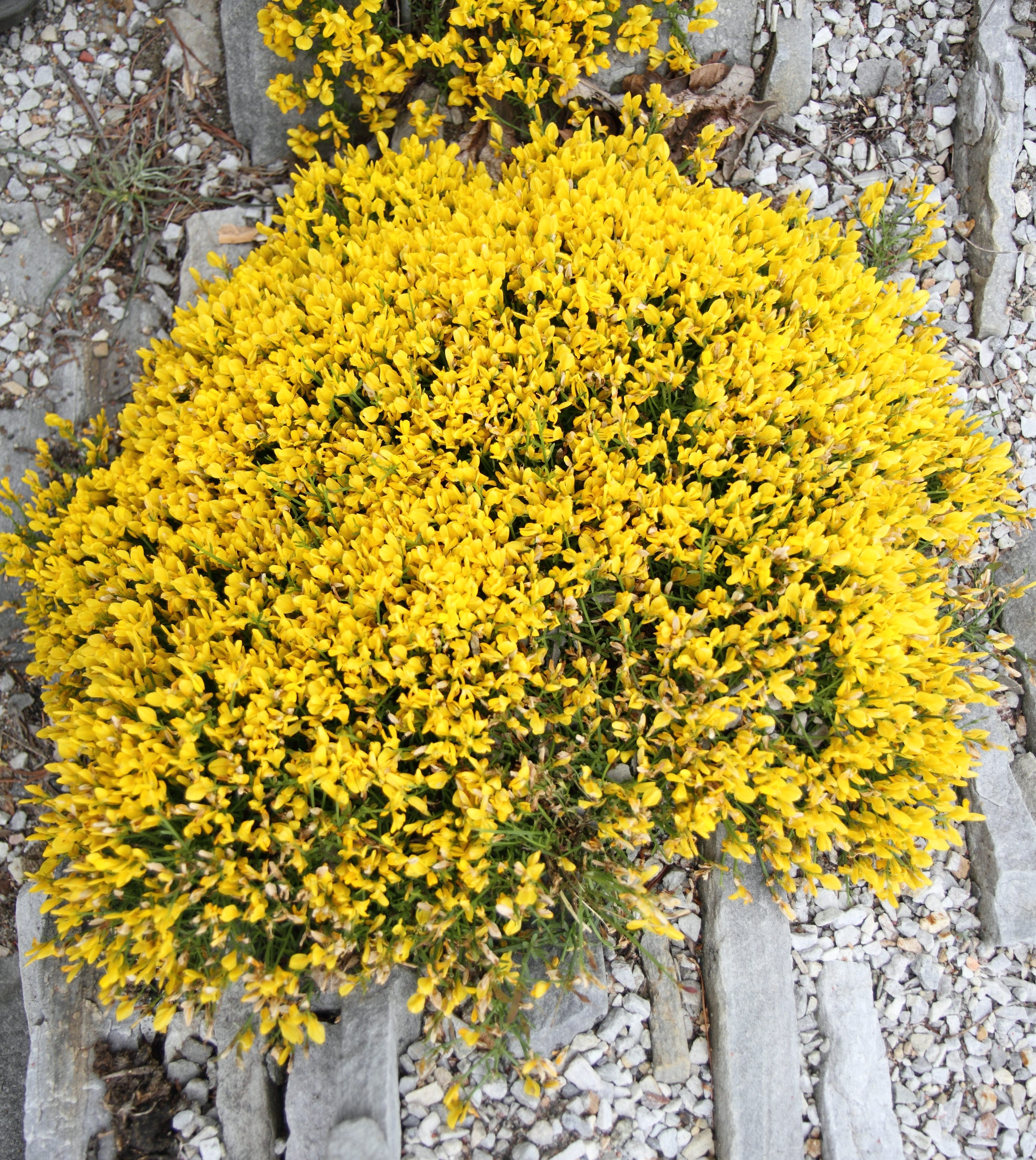 Genista lydia var. lydia Boiss., Vertical Crevice Garden, Montreal Botanical Garden, Montreal, Quebec